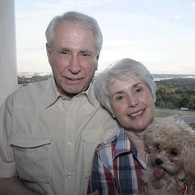 Copyright released by Mike Gravel for President 2008 ( Mike Gravel with Whitney Gravel (and Ginger) All photos of the Mike Gravel for President 2008 Campaign are used with permission from the Mike Gravel for President 2008 Campaign. Please contact our National Office if you need any further details at